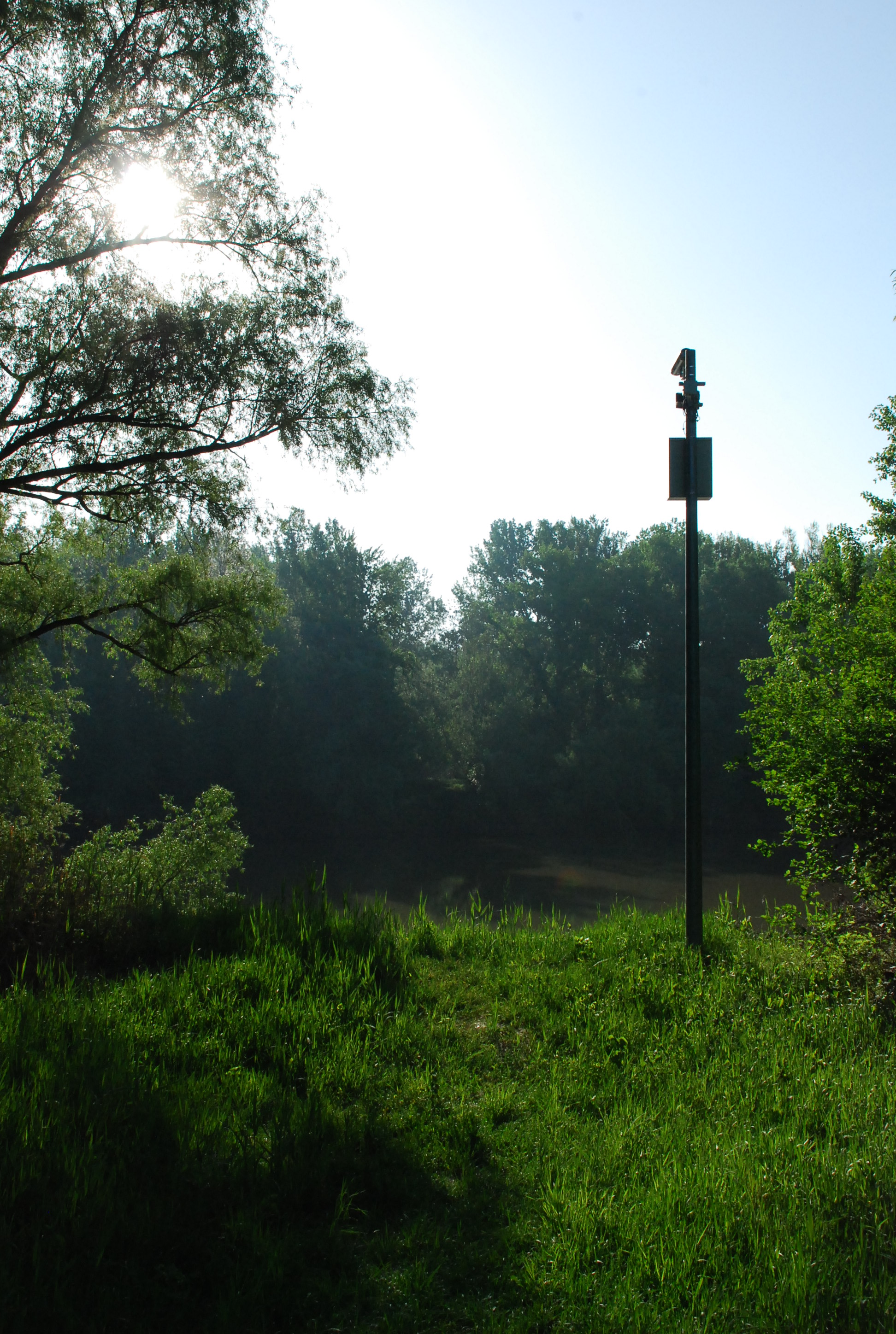 Slovakian-Hungarian-Ukrainian tripoint. Tripoint lies in the middle of Tisa river. View from Slovakian side facing to Hungary.